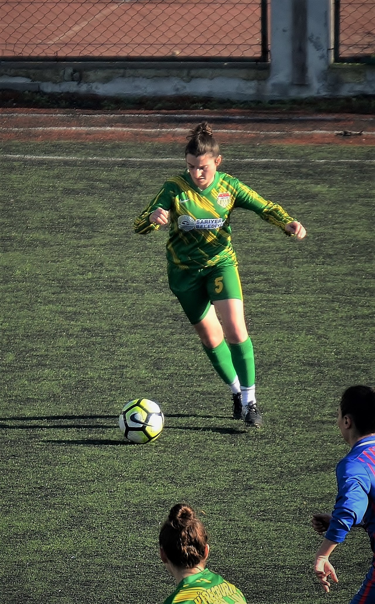 Tuğba Babacan playing for Kireçburnu Spor in the 2017-18 Turkish Women's First Football League